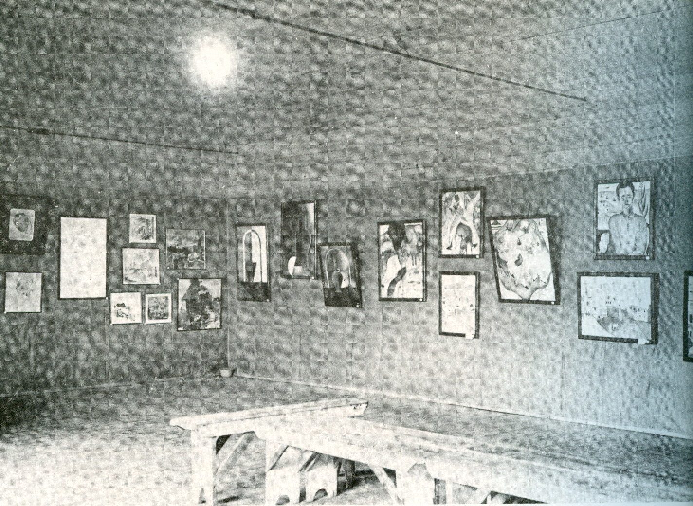 Exhibition of "Modern Artists" in the Ohel Theatre in Tel Aviv (1921-1925)